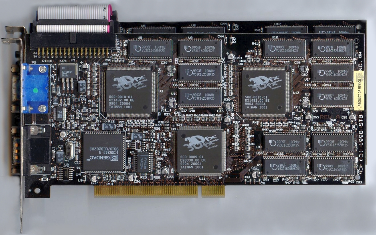 A pair of STB Blackmagic 3D cards (3dfx Voodoo2-based) connected in SLI. Cards scanned by me.